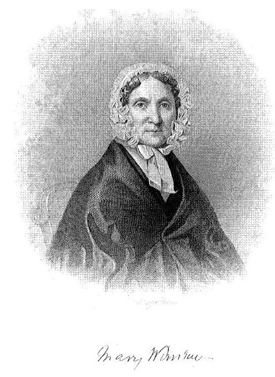 Image of Mary Winslow